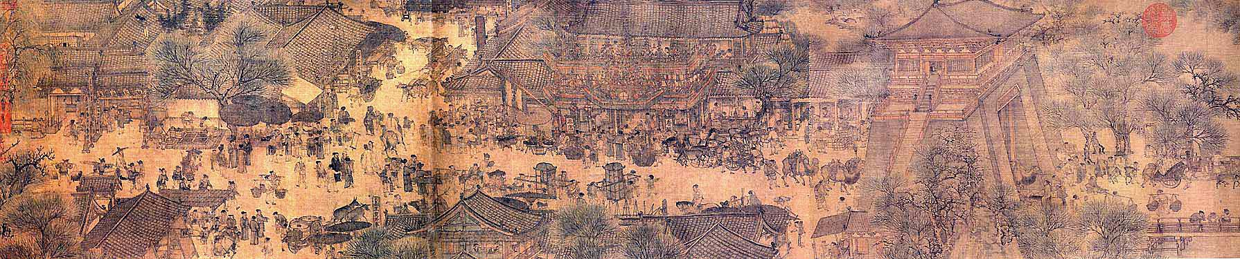 Portion of the Chinese cityscape handscroll Along the River During Qingming Festival, ink and colors on silk, 25.5 × 525 cm.